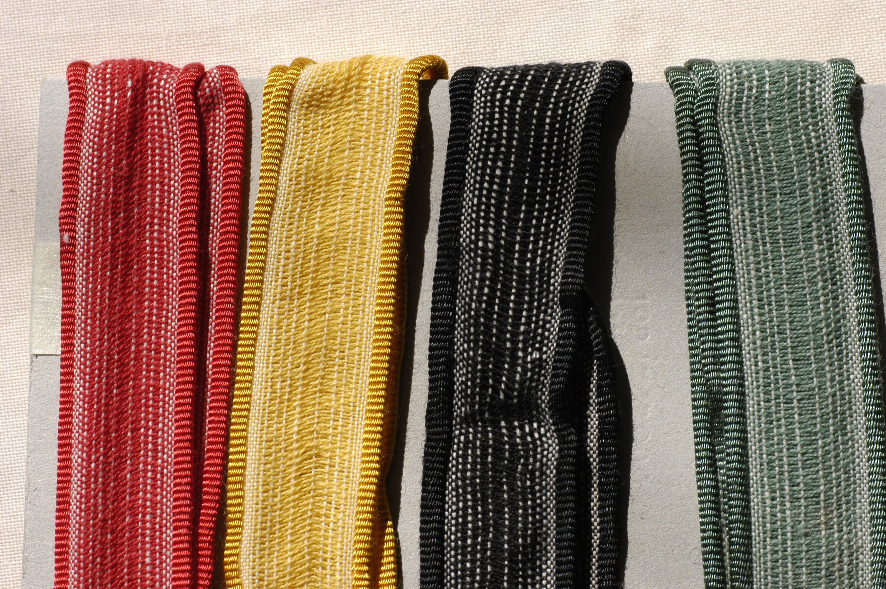 Verschiedene einfarbige Kapitalbänder